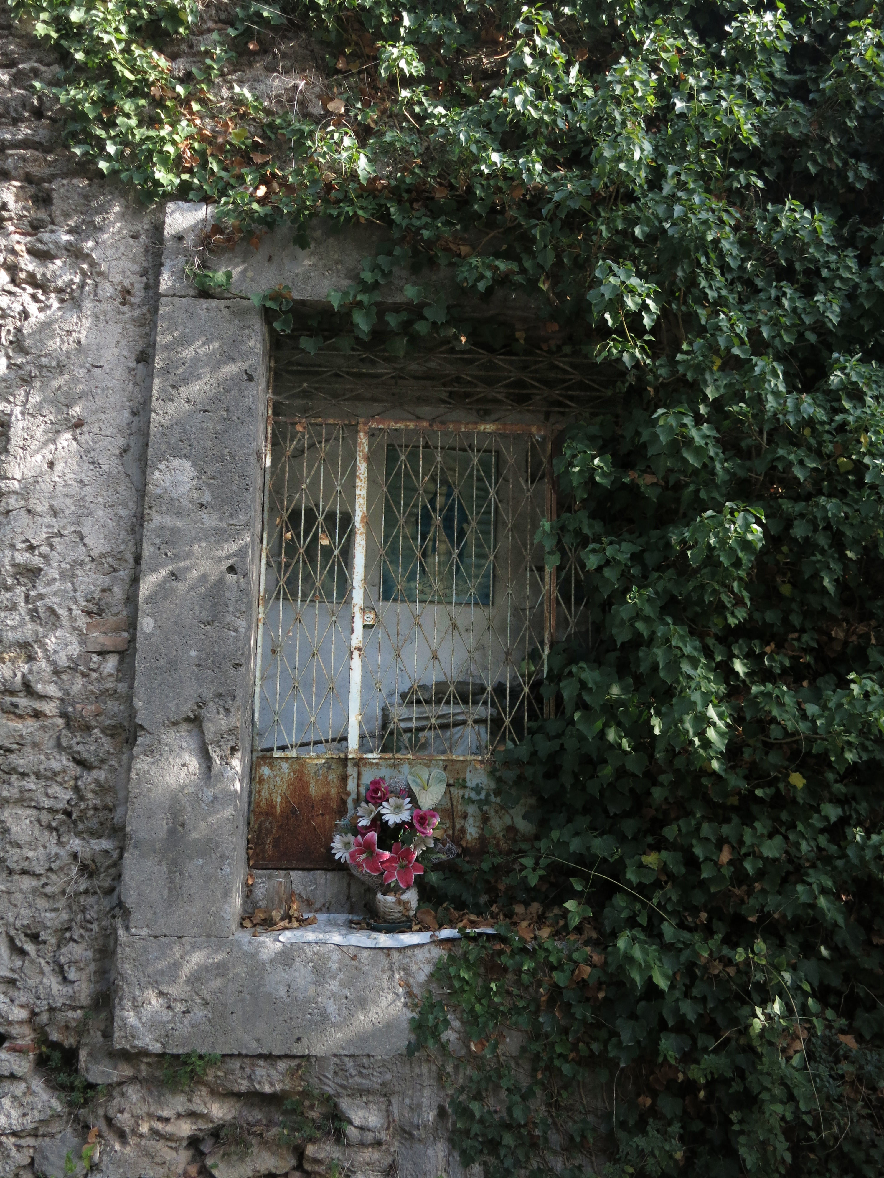 Shrine dedicated to the "Madonna di San Vittorino" located in the back wall of the ruined Saint Mary in Vittorino church - Cittaducale, province of Rieti (Italy)